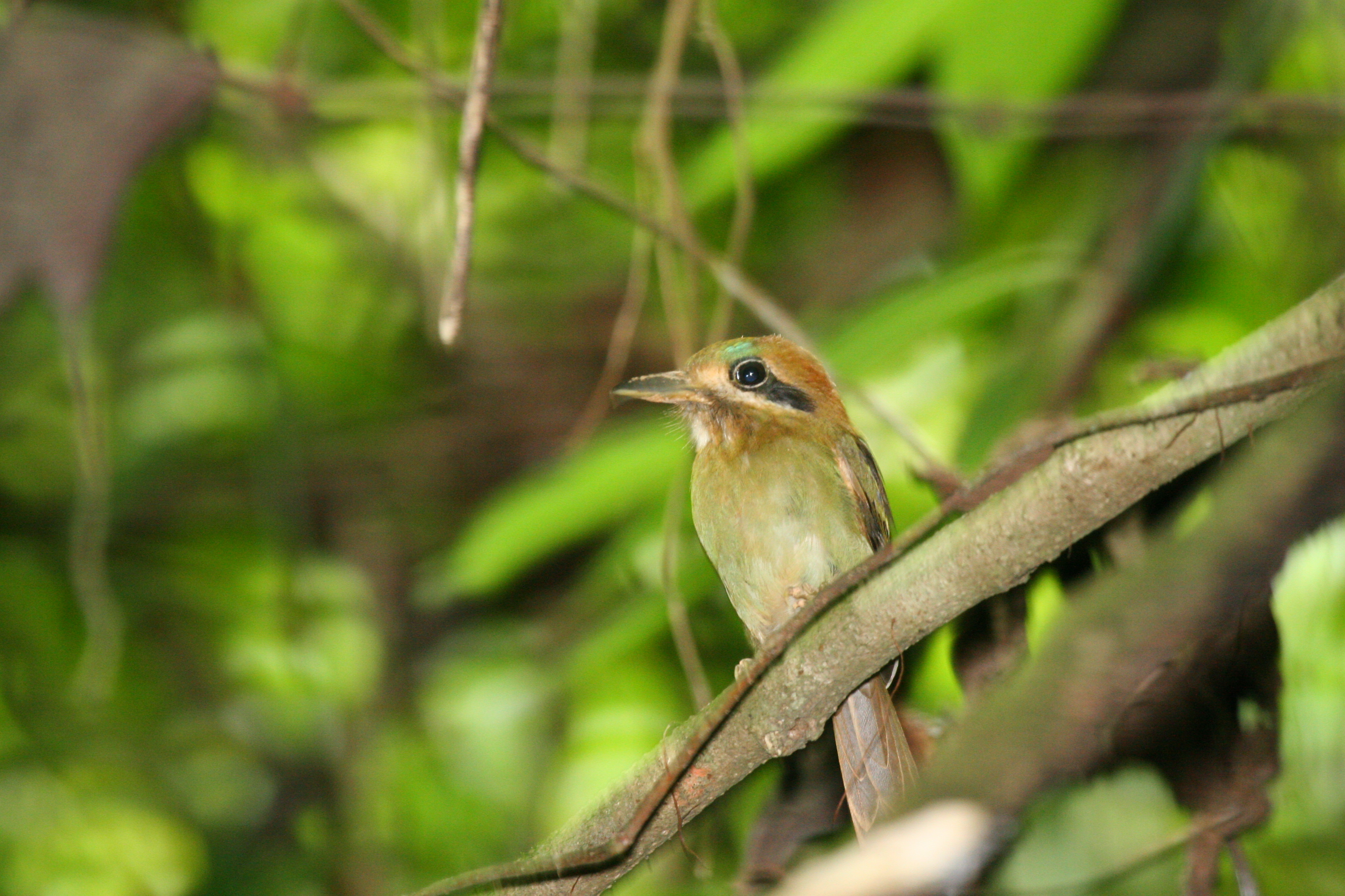 Tody Motmot (Hylomanes momotula)